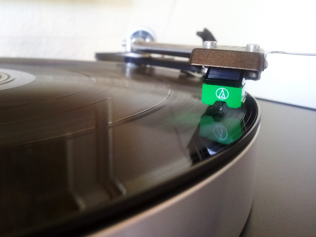 Linn Axis + Linn LVV + AT95e - cartridge